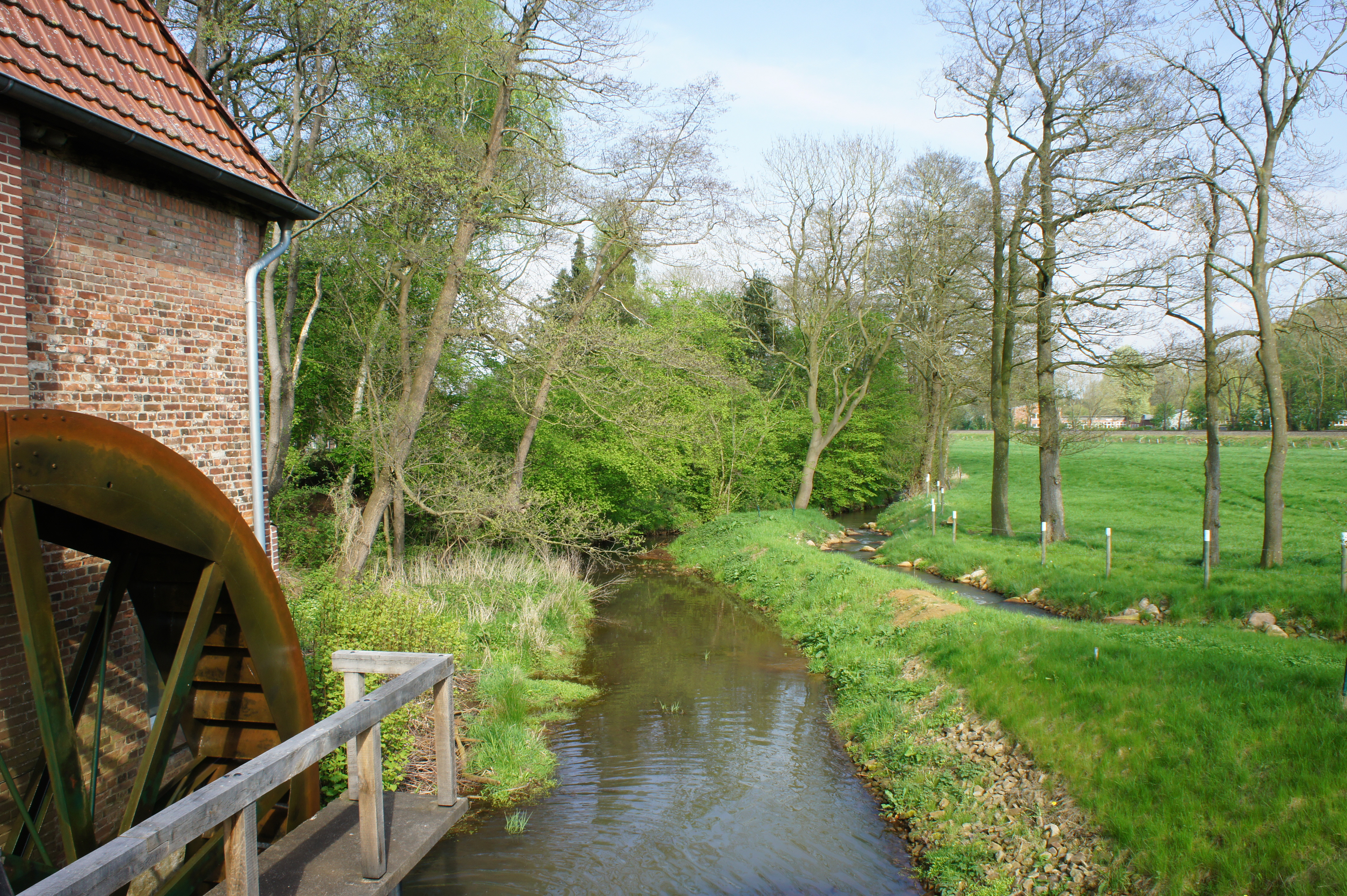 The Welse near the Elmeloher watermill